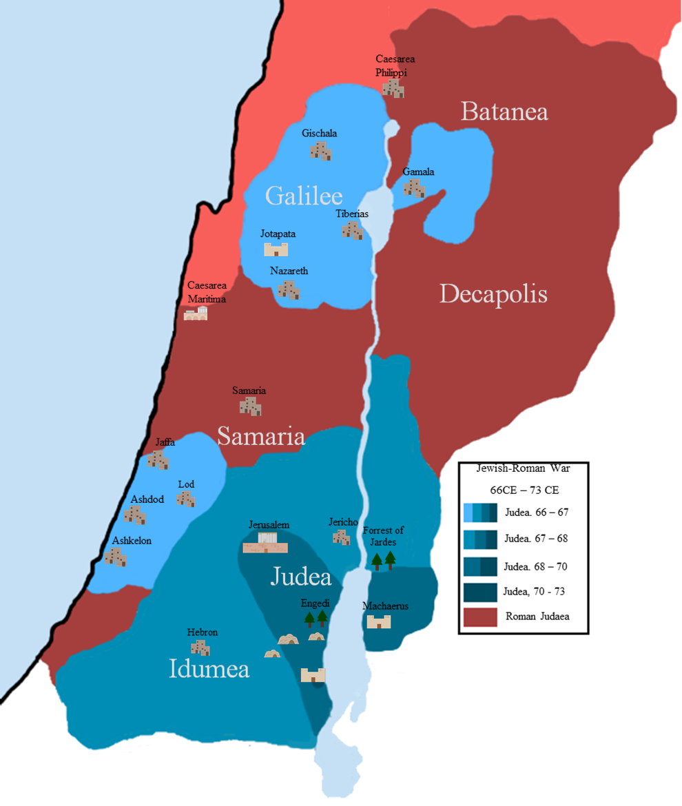 Map of the territories held by Jewish forces during the First Jewish-Roman War, from 66 CE to 73 CE.